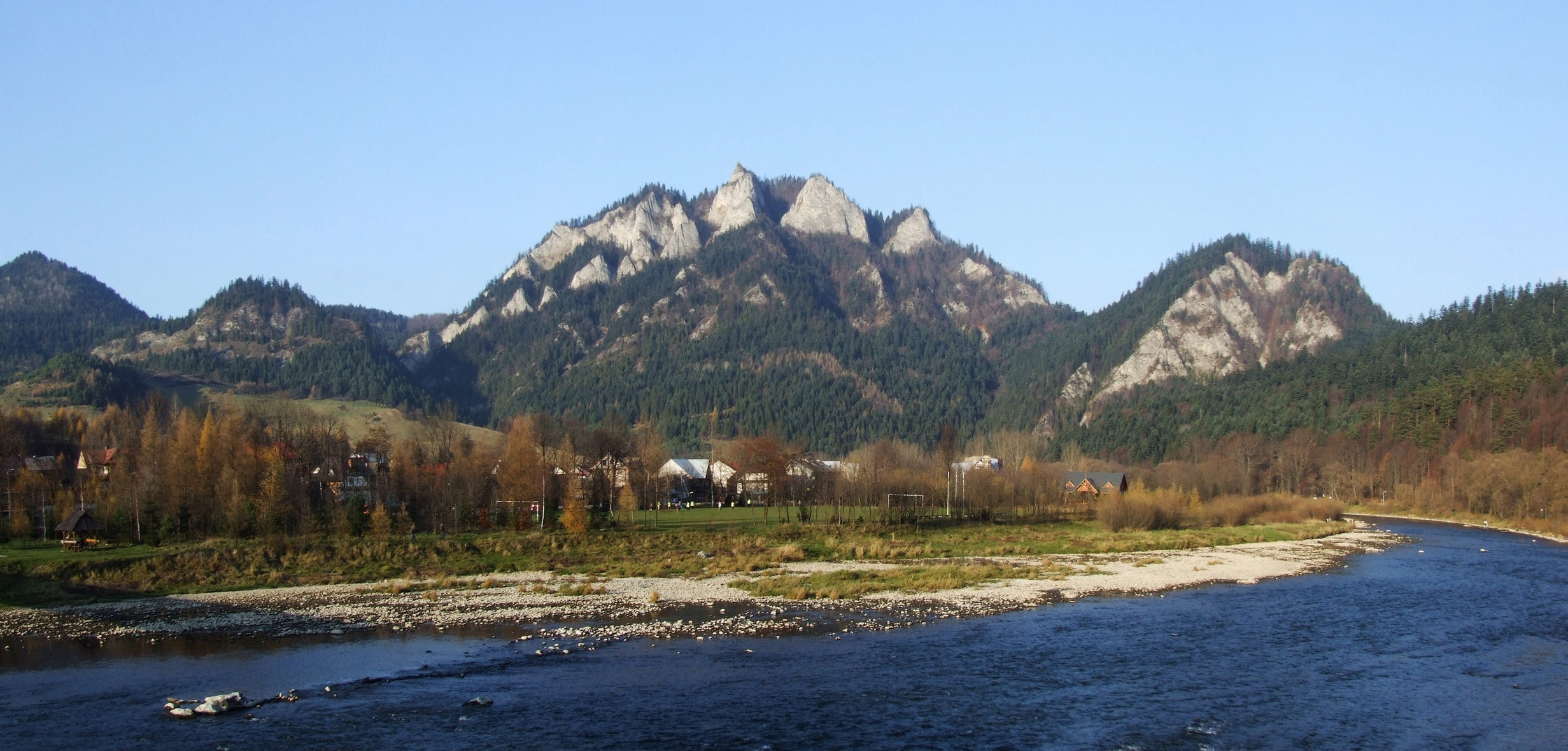 Trzy Korony (Pieniny) - view from Červený Kláštor (Slovakia)